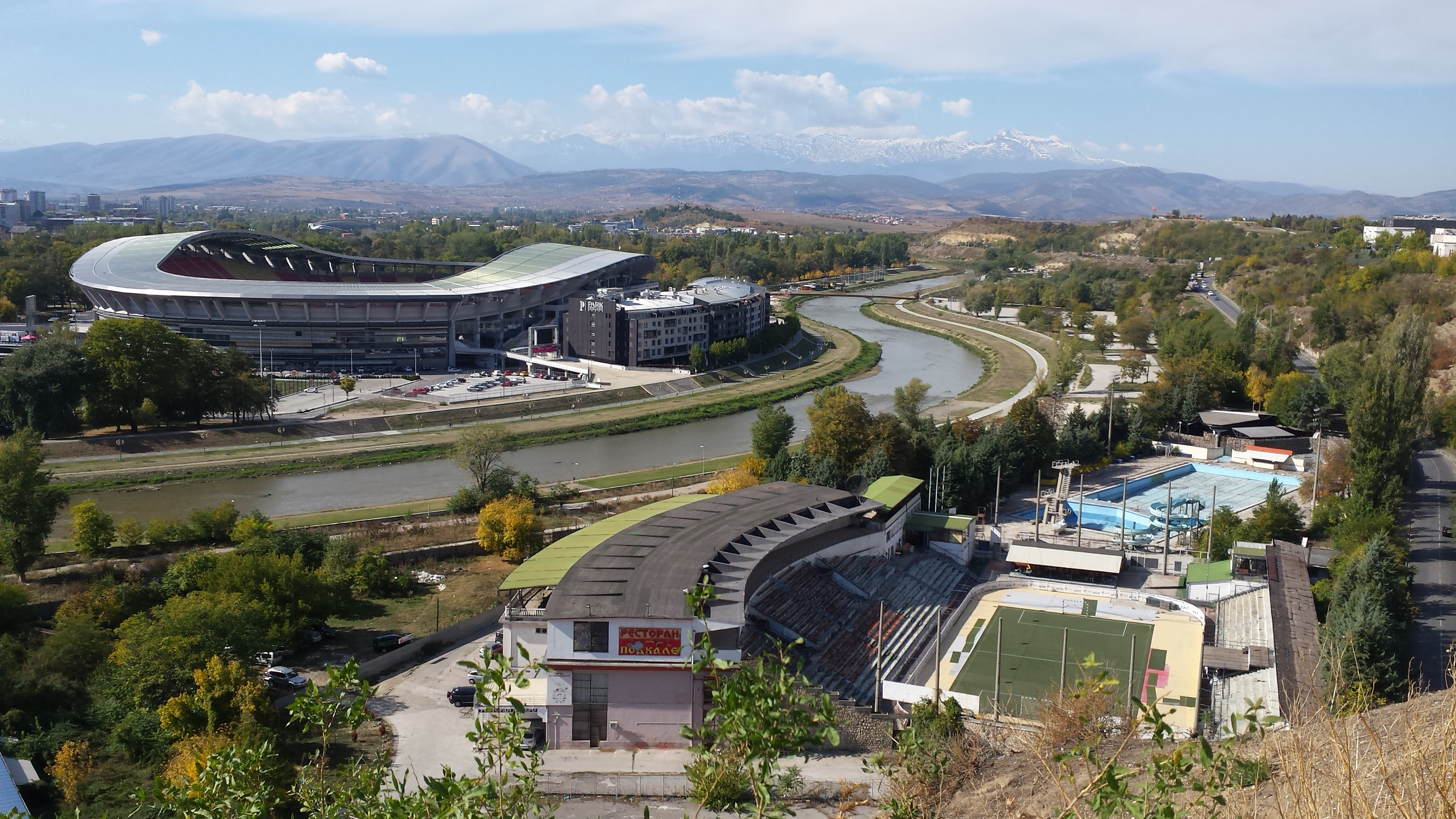 The river Vardar in front of the Philip II Arena